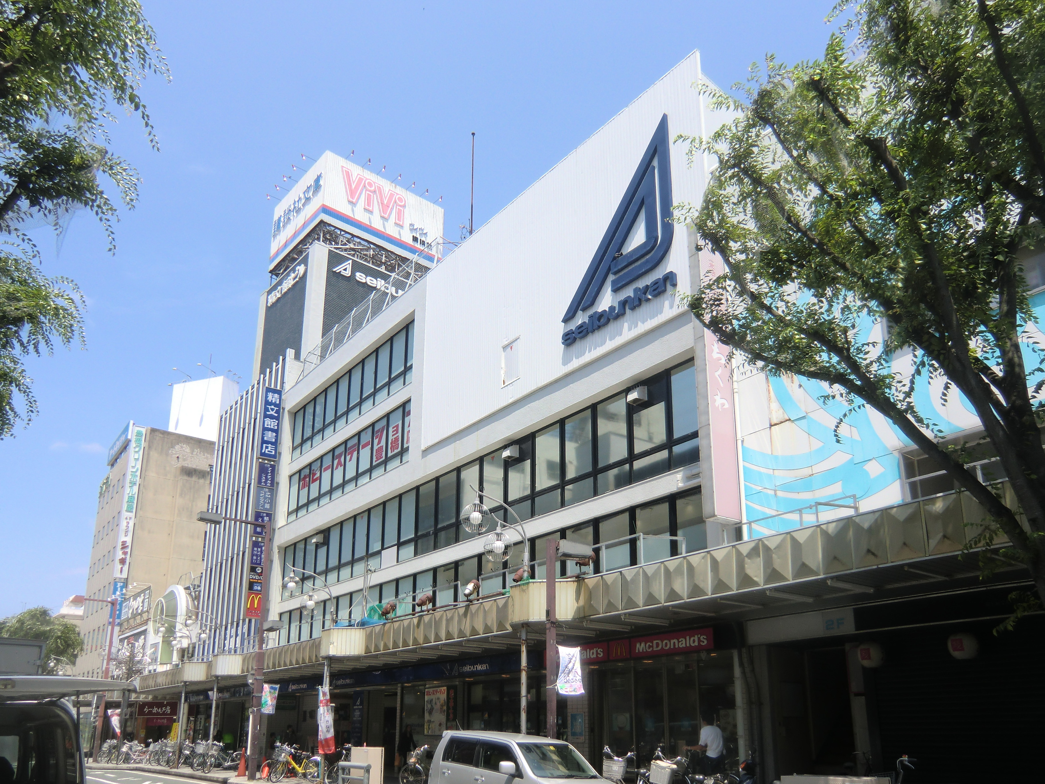 Seibunkan Co., Ltd. headquarters, located at Hirokoji, Toyohashi, Aichi, Japan